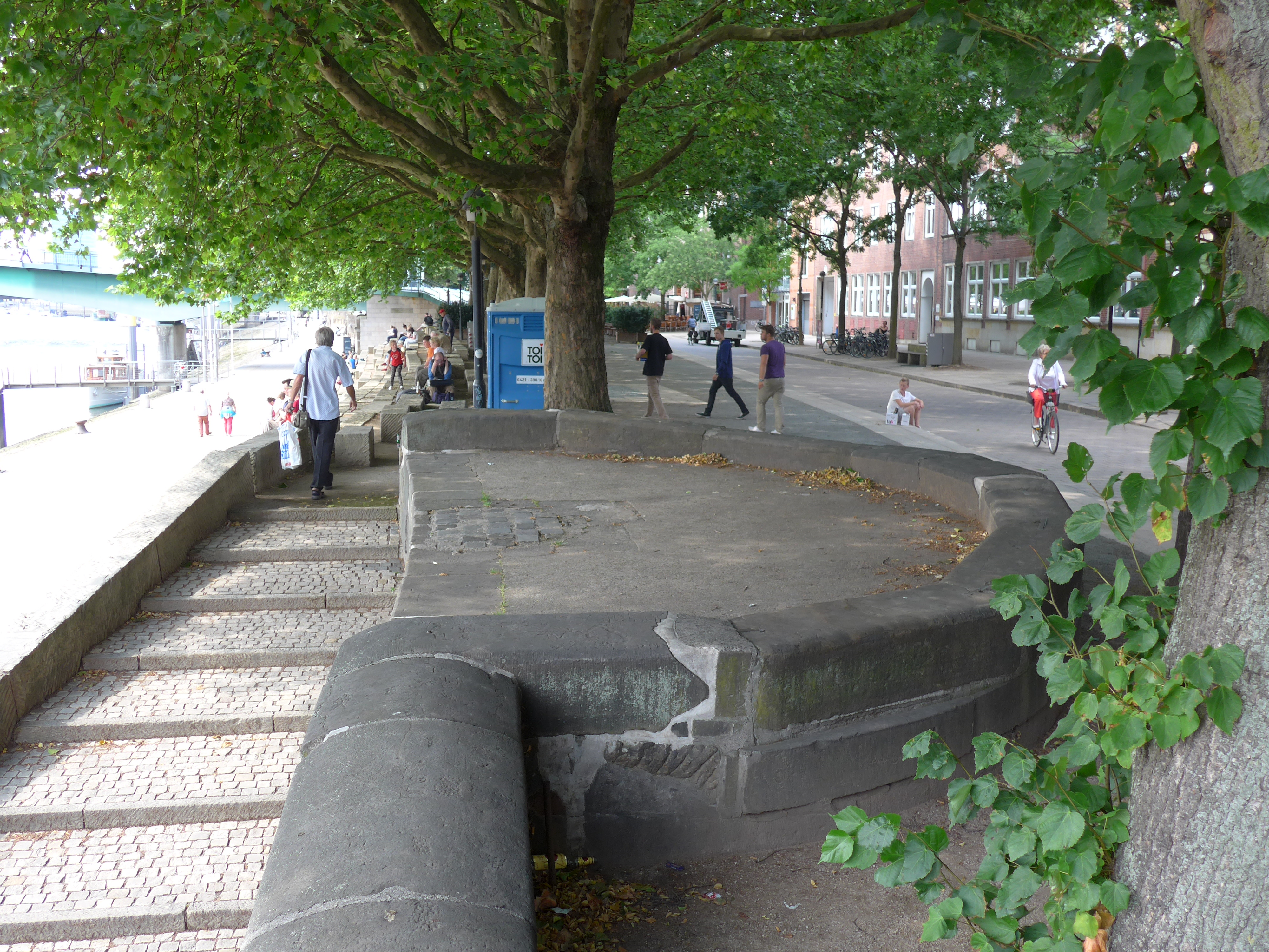 The remains of the foundations of the great crane by the river Weser in Bremen